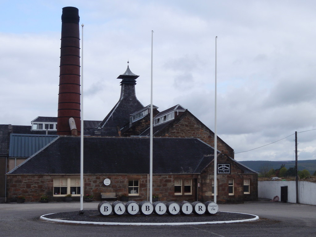 Balblair Distillery